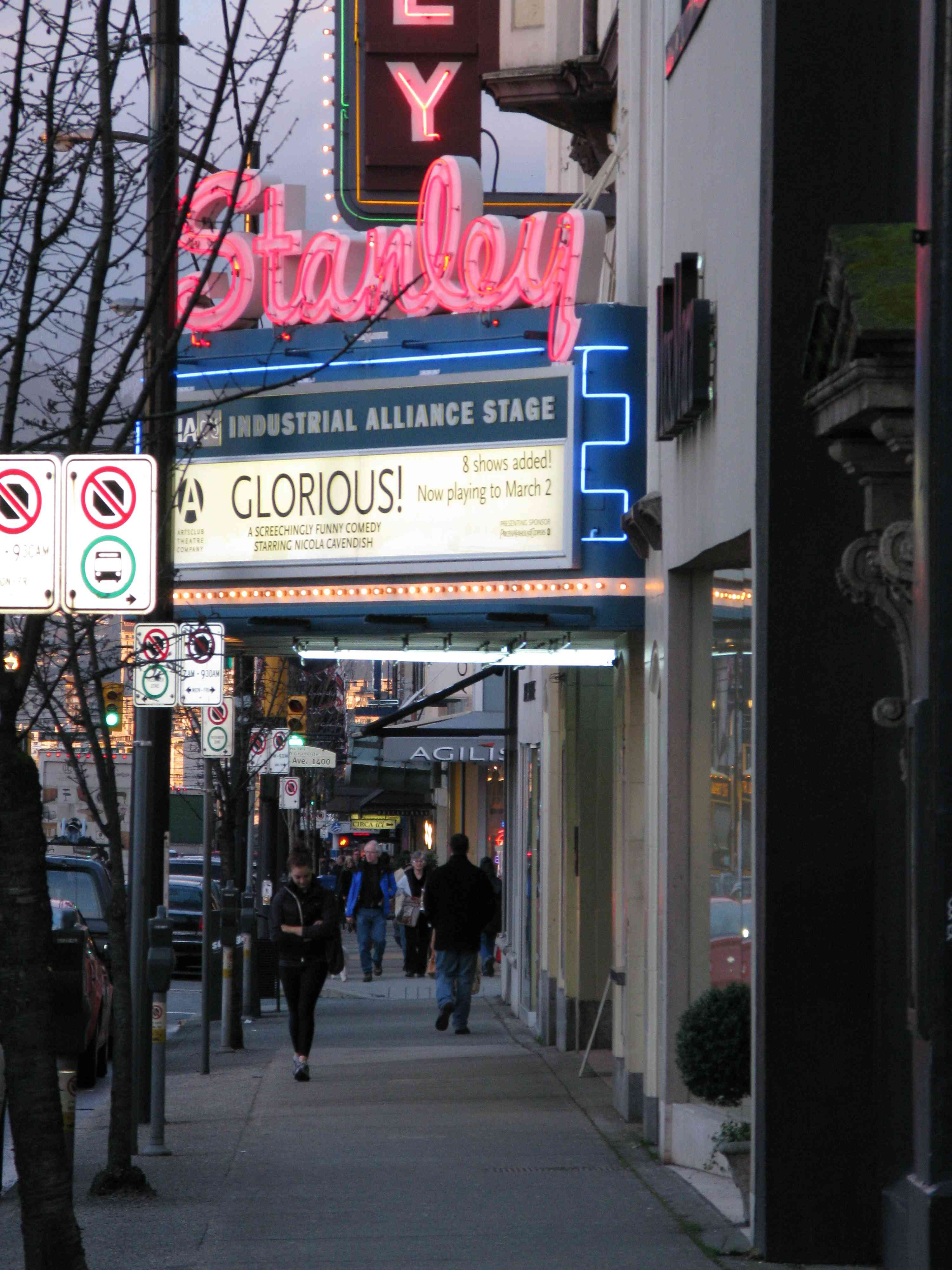 The Stanley Theatre as seen looking north on Granville Street.